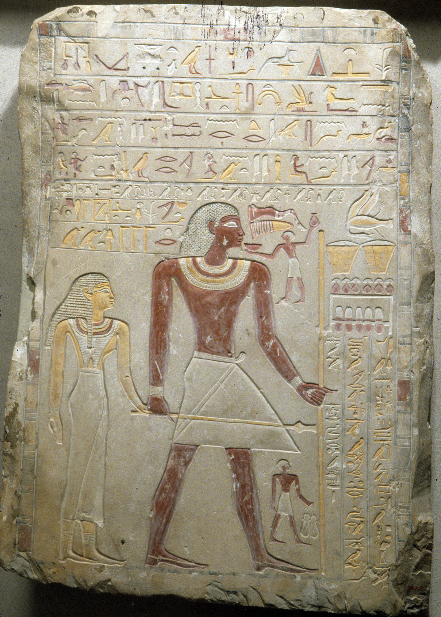 Stela, Indi and Mutmuti